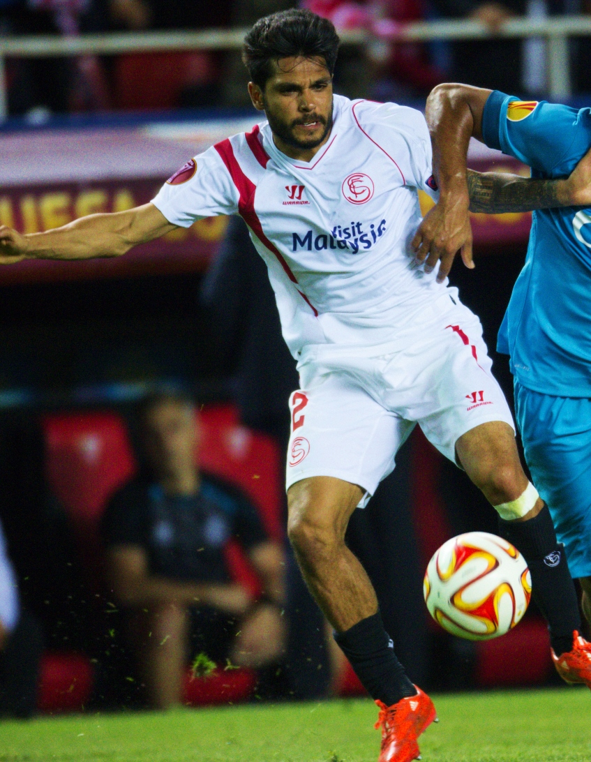 16.04.2015. Испания, Севилья, стадион «Эстадио Рамон Санчес Писхуан». Лига Европы УЕФА 2014/2015, 1/4 финала, «Севилья» — «Зенит». На снимке в синей форме: Саломон Рондон, нападающий ФК «Зенит».